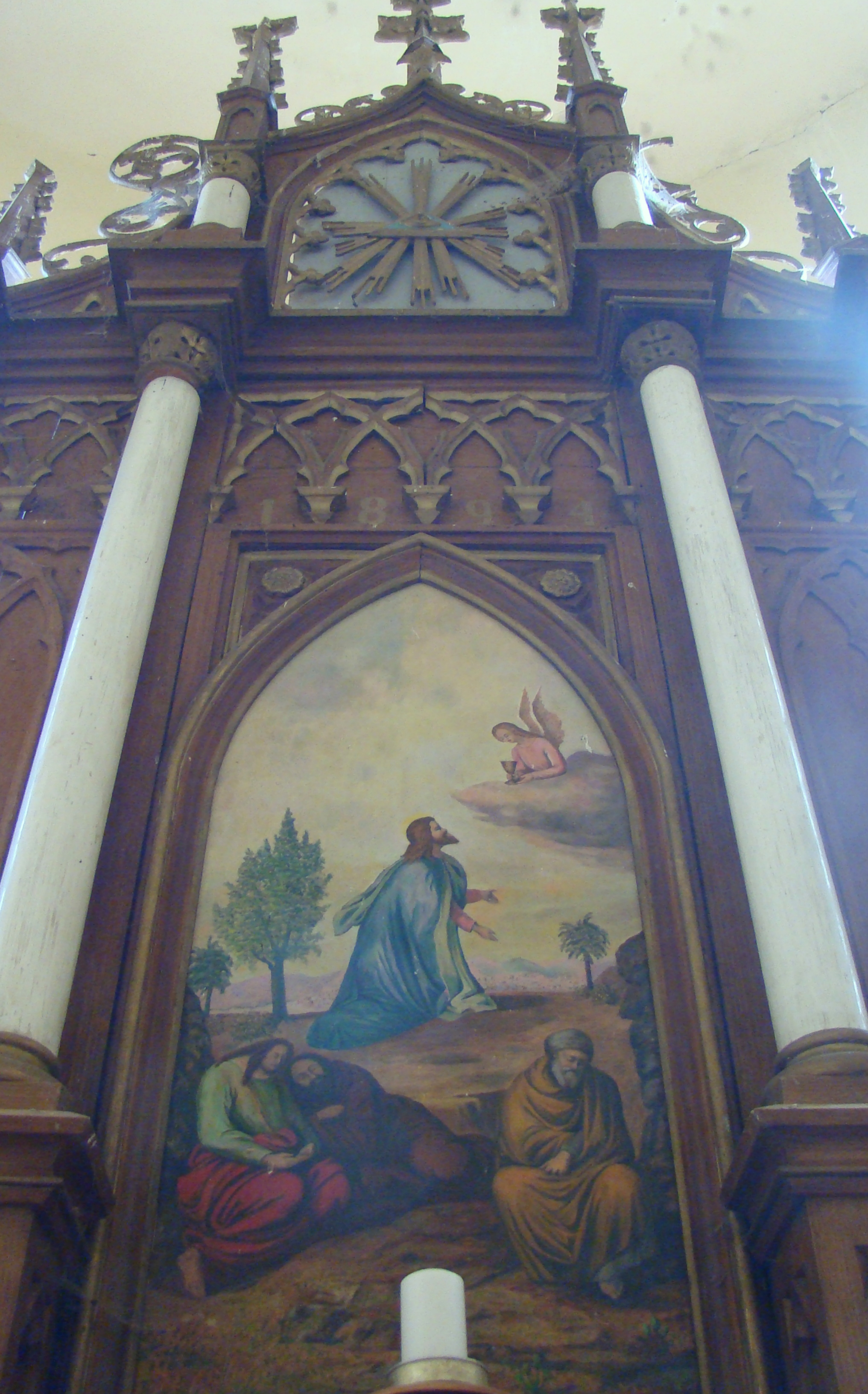 Lutheran church in Sântioana, Mureș County, Romania